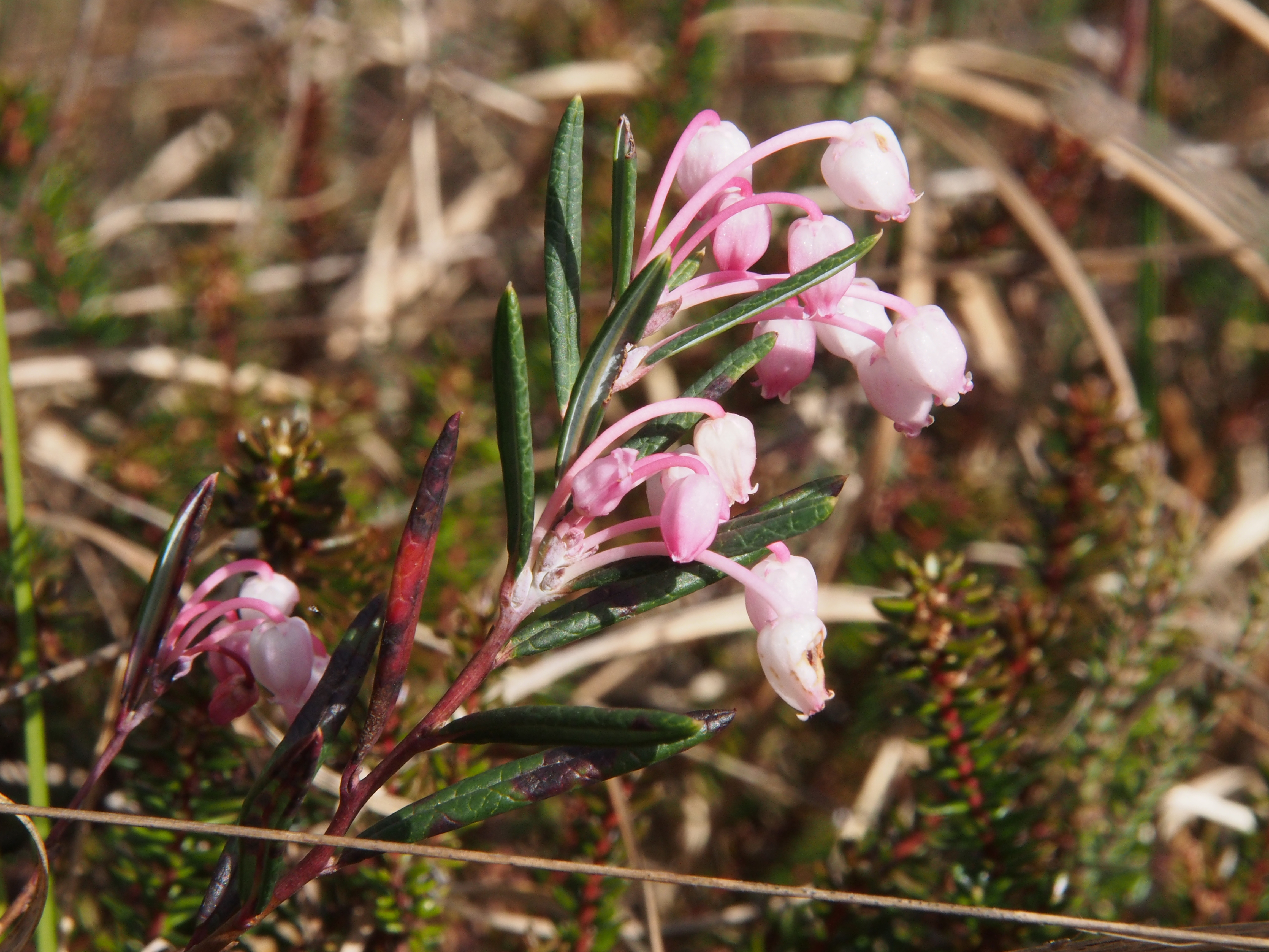 Andromeda polifolia, Ericaceae, Bog-rosemary